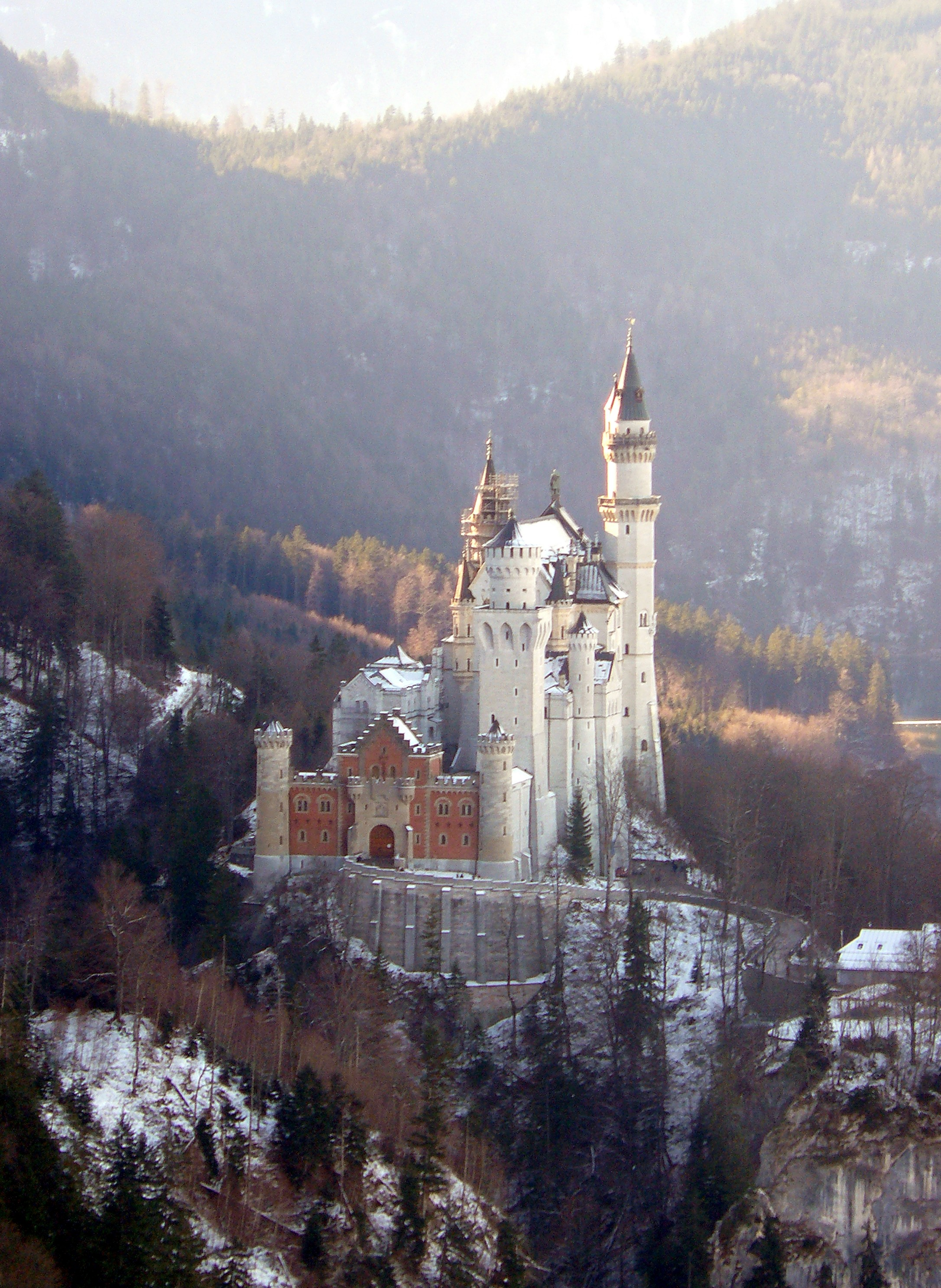 Neuschwanstein Castle at Schwangau, Bavaria, Germany